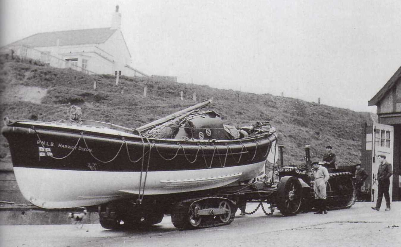 Post card image of the Cromer No 2 Lifeboat Harriot Dixon outside the Cromer beach lifeboat station